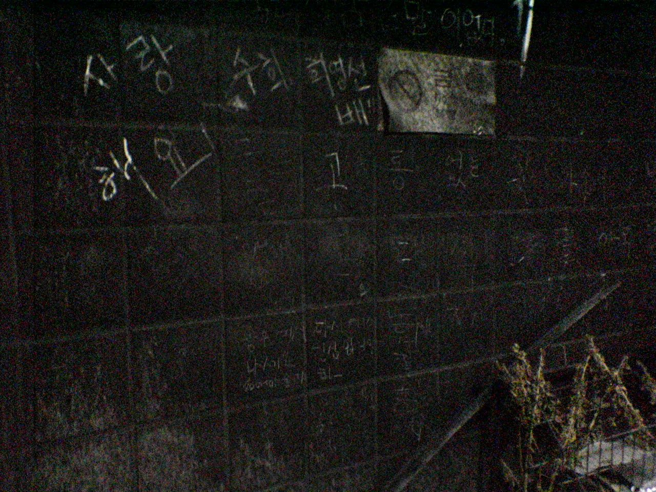 The graffiti in wall which was burned up for the Daegu subway fire(2003-02-13), which seem was written by friends or relations of the this fire's victims. "사랑해요(Salang-haeyo)" means "I love you". in subway jungangno station, Daegu, South Korea. NOTICE: 1)In this photograph, Hangeul graffiti on the wall that may potentially includes a privacy of victim, so it has to take a care for victims and their families.(Japanese:壁に書かれているハングルの落書きには犠牲者個人のプライバシーが含まれている可能性があるため、犠牲者および遺族に対する配慮を検討する必要がある。) 2)This photograph has no exposures, but Kussy will publish by original version of picture. If you want to reuse this picture, you may fix the exposure with properly by yourself.(Japanese:この写真は露出不足だが、オリジナルのまま公開する。再使用に際しては使用者において適切に修正されたい。)